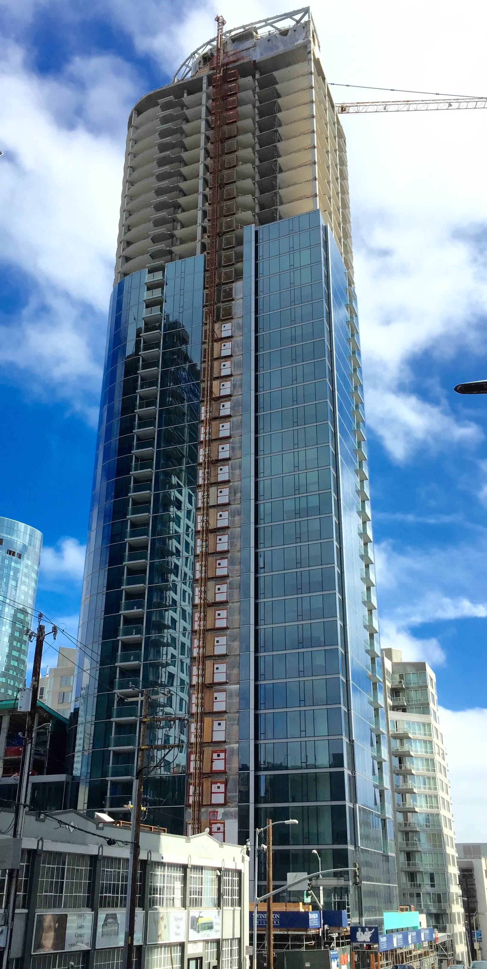 399 Fremont Street, San Francisco Under Construction August 2015, West View